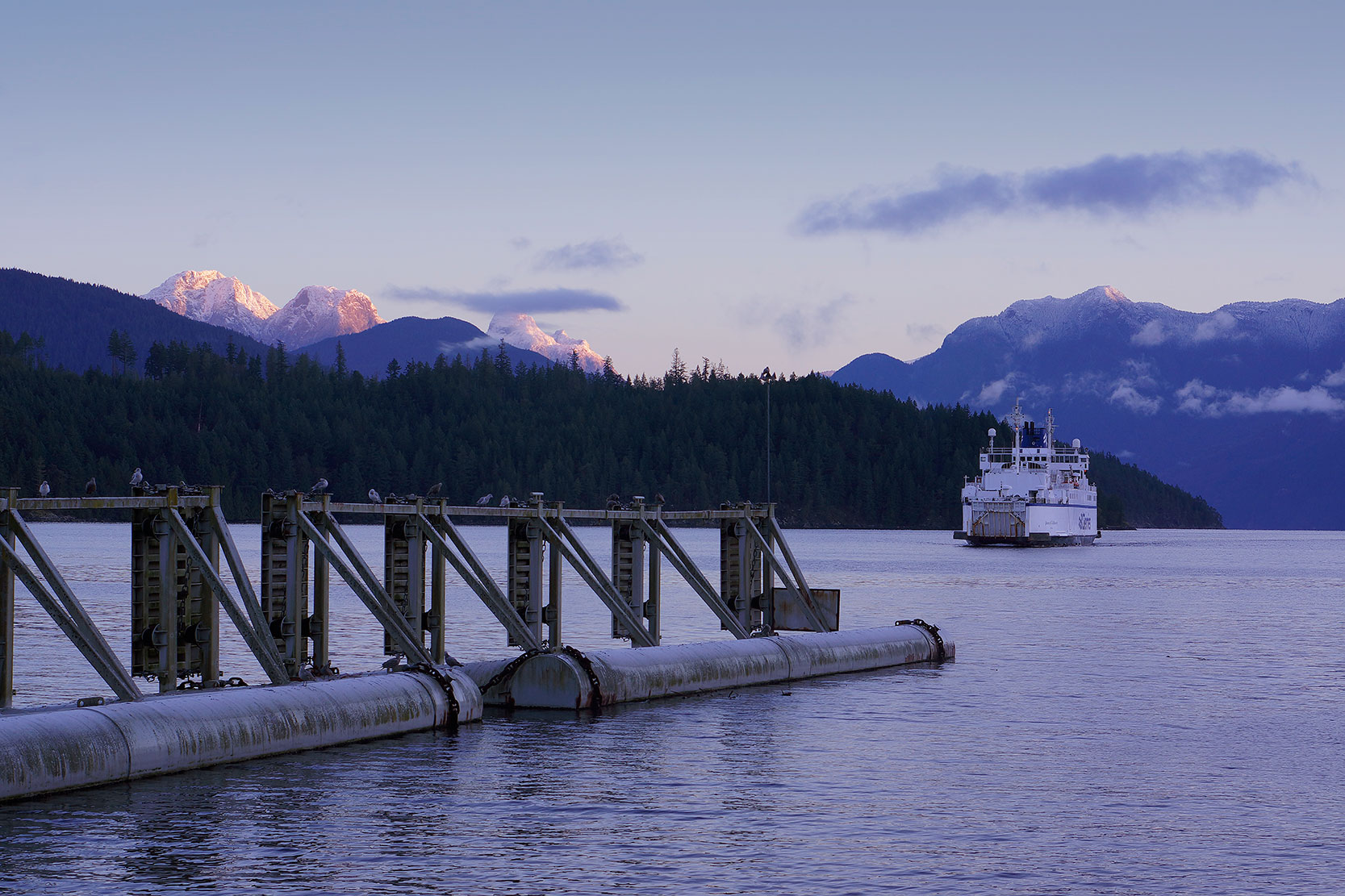 BC Ferry arriving at Erls Cove